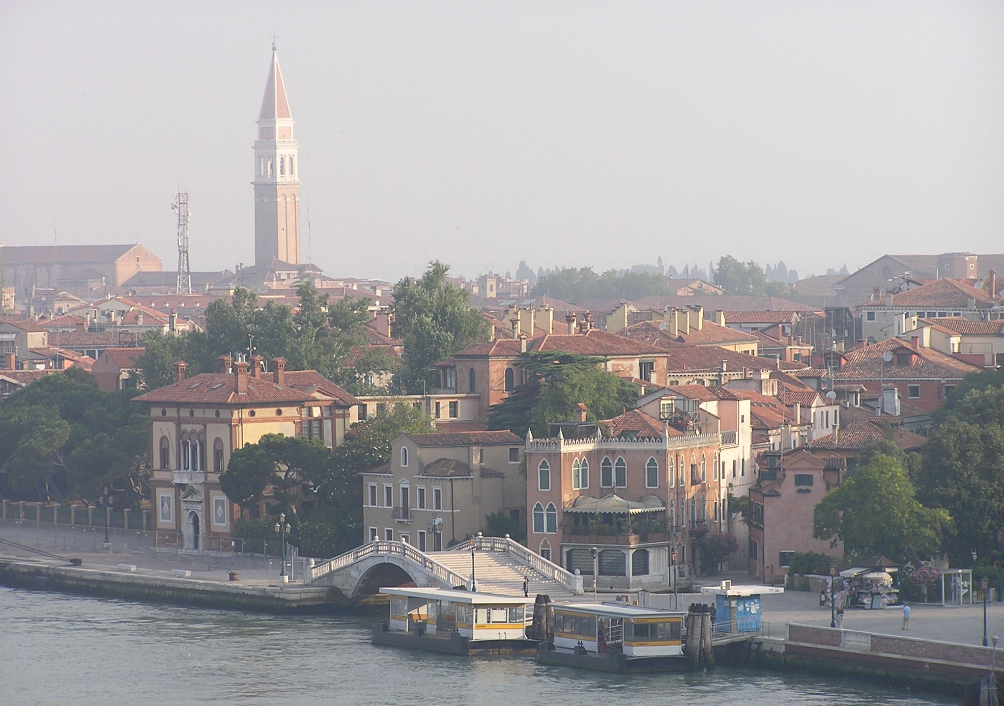 This shot was taken early in the morning, and the rising sun made the buildings glow.